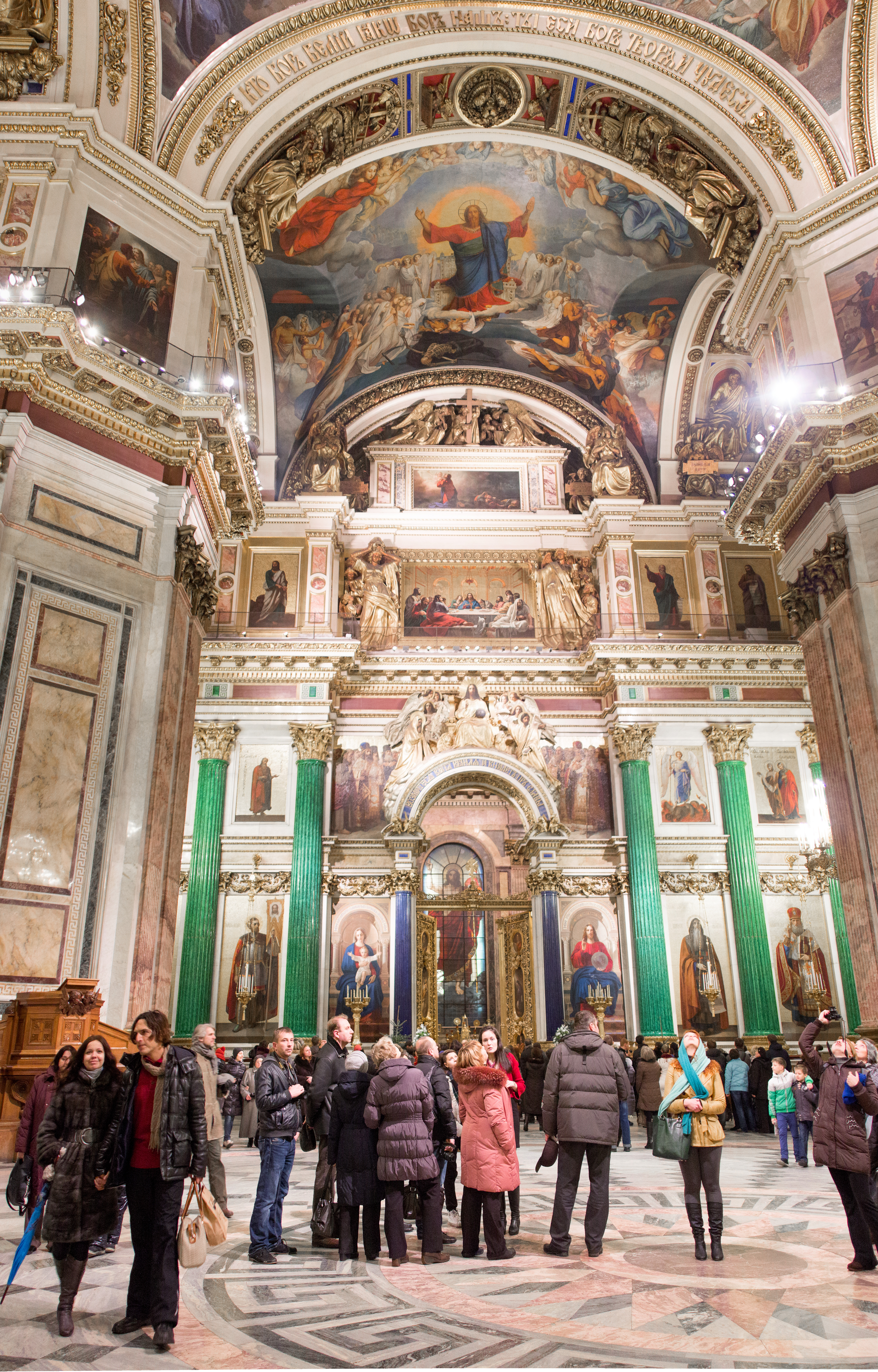 Saint Isaac's Cathedral in Saint Petersburg